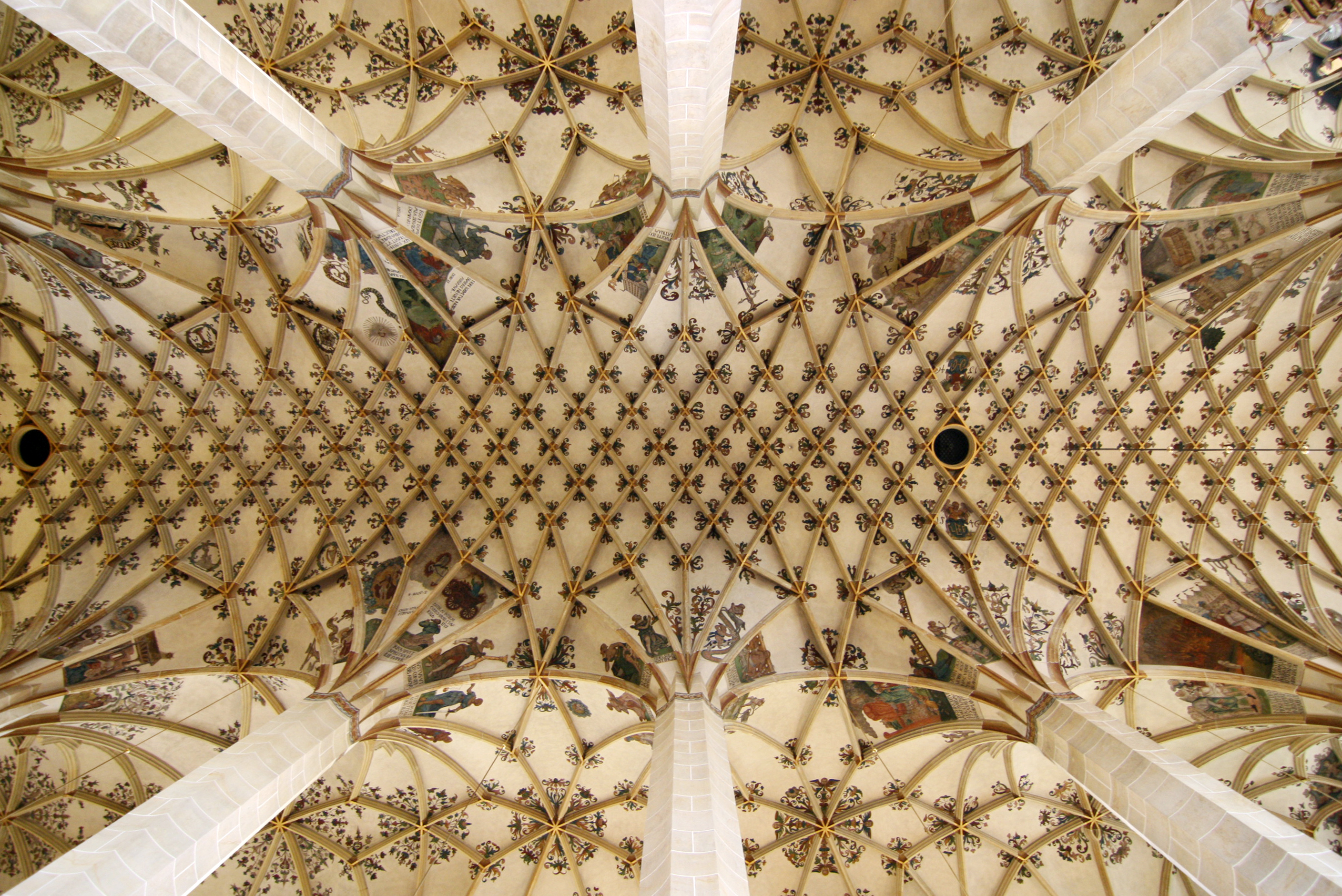 Gothic vaults in the "Marienkirche", Pirna